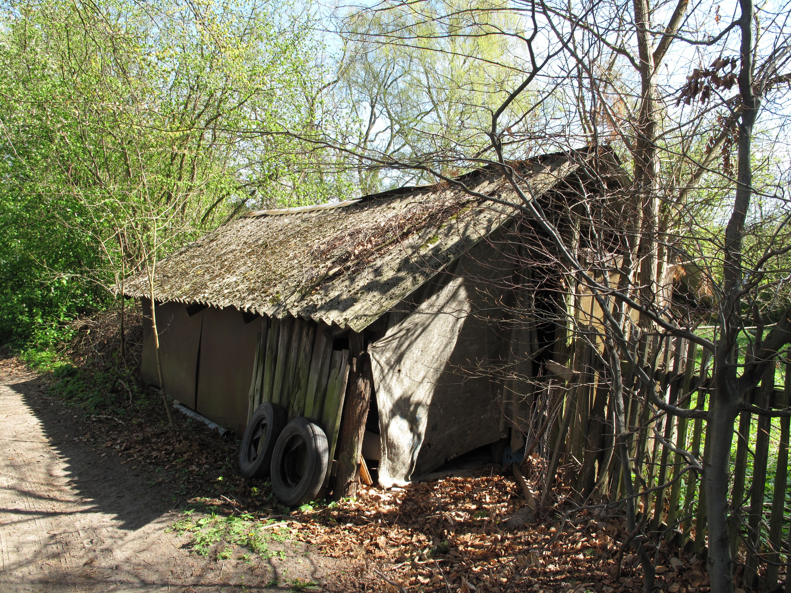 Old building on the „Hof Marienhöhe“ in April 2014. Marienhöhe is a part (settlement, estate; german: Wohnplatz) and organic farm of Bad Saarow, District Oder-Spree, Brandenburg, Germany. The place was established in 1880 as folwark of the manor Saarow. Since 1928 the „Hof Marienhöhe“ works on the biodynamic agriculture-method (Demeter international) and is considered to be the oldest farm working with this method in Germany.